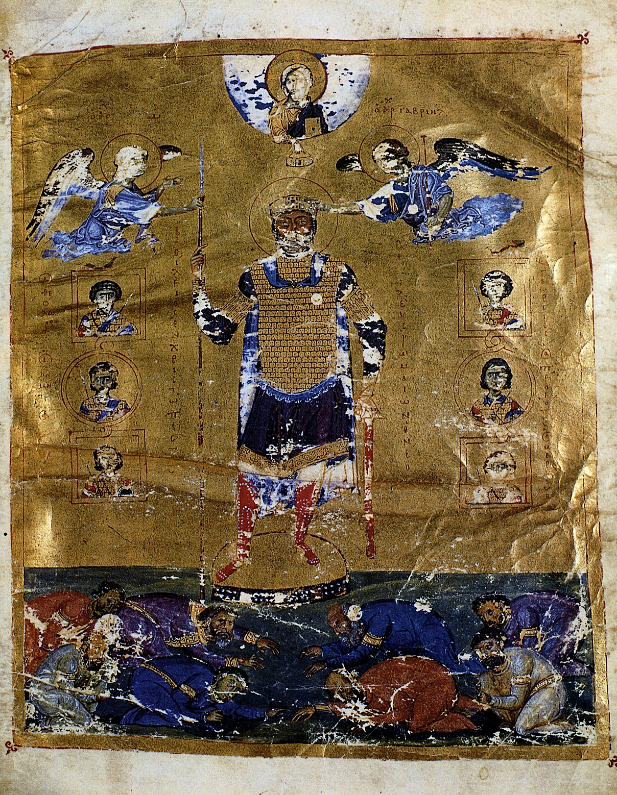 Miniature of Emperor Basil II in triumphal garb, exemplifying the Imperial Crown handed down by Angels. Psalter of Basil II (Psalter of Venice), BNM, Ms. gr. 17, fol. 3r References: Paul Stephenson: A note on the portrait illumination of Basil II in his psalter